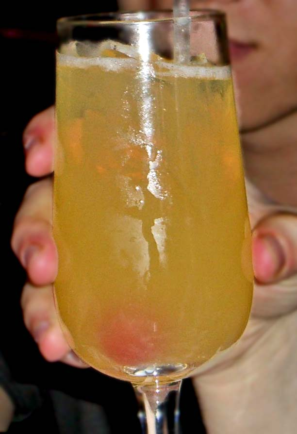 An edited photo of a whiskey sour held in a person's hand. The original photo included the faces of two people, for whom model releases are not provided. The image was cropped and enhanced to highlight the cocktail.